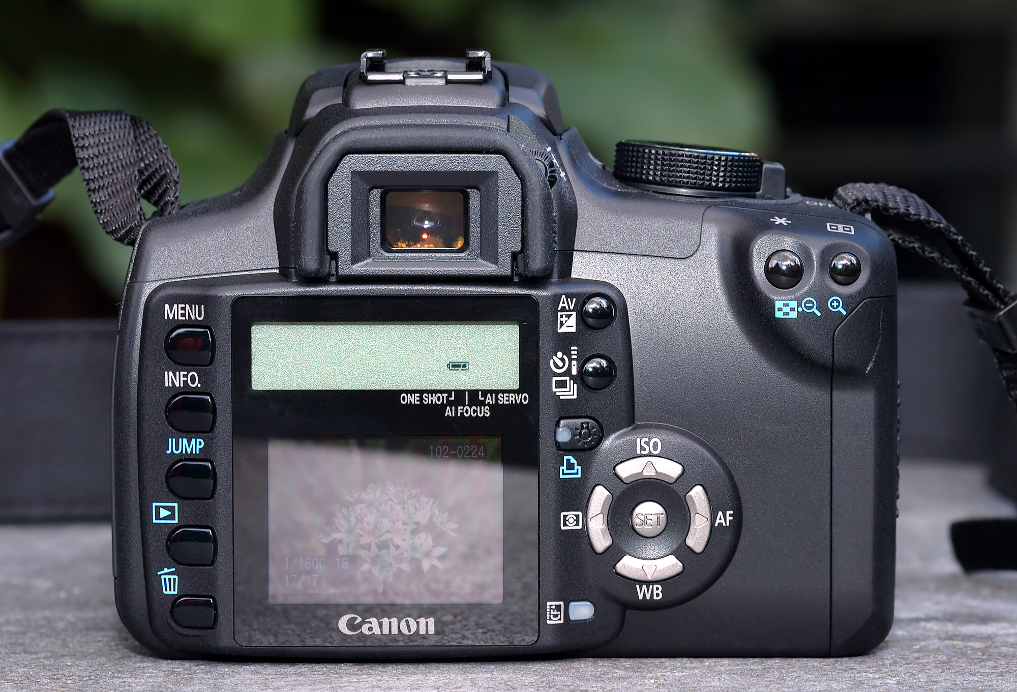 This image shows the back of a Canon EOS 350D digital single-lens reflex camera with a Tamron 18-200 f/3.5-6.3 XR Di II LD lens. Thanks to Andreas Böttger for allowing me to make this photo